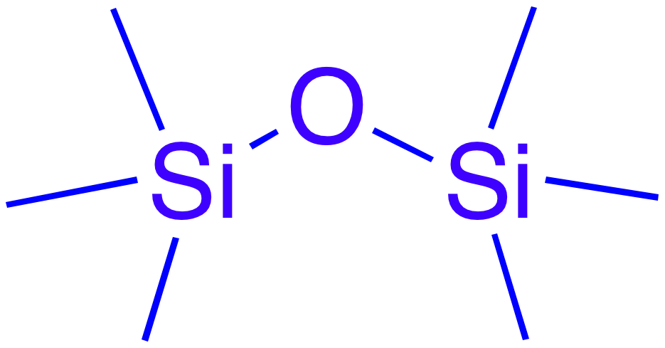 siloxane functional group